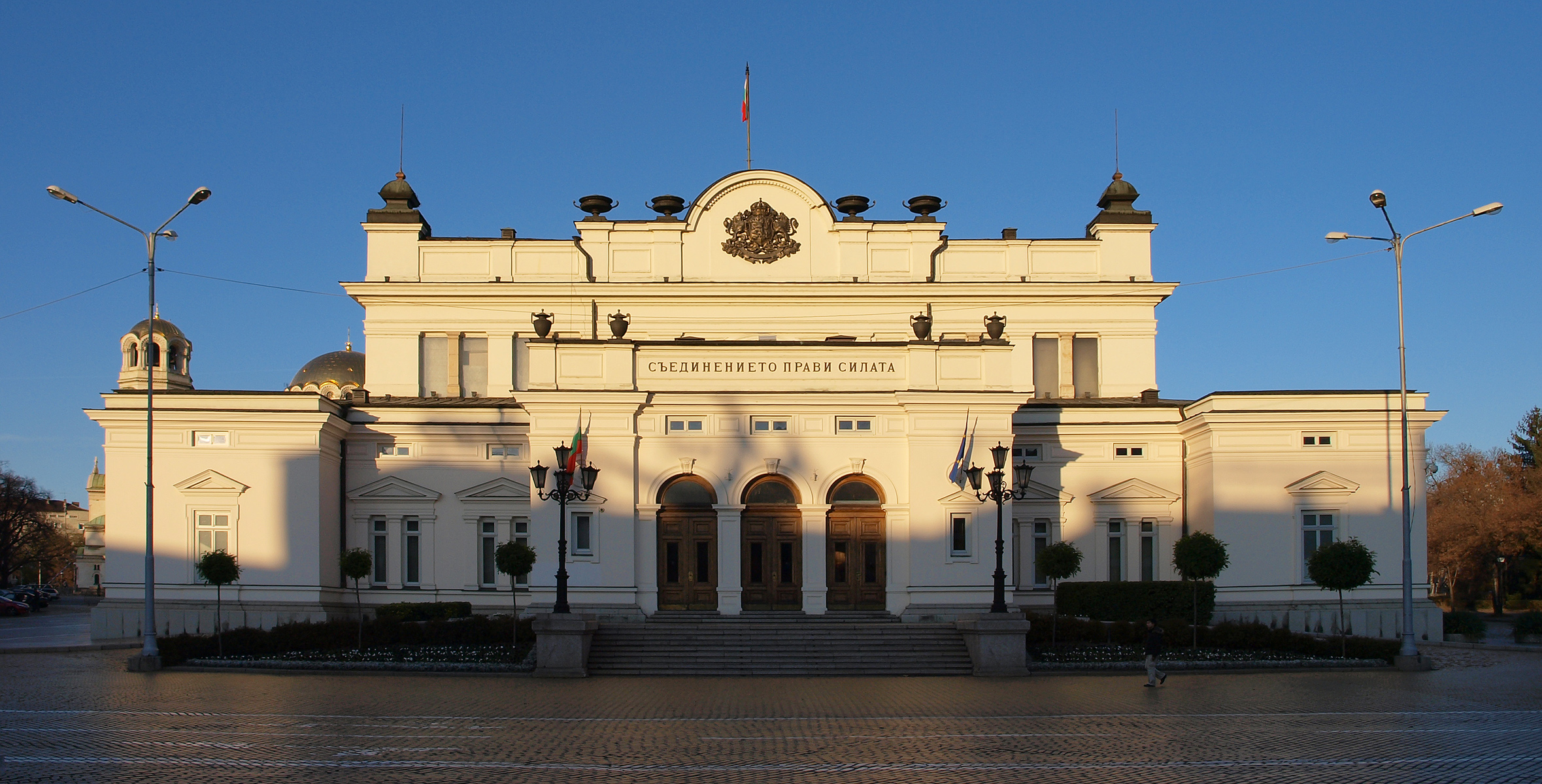 Frontal view of the National Assembly of Bulgaria in Sofia